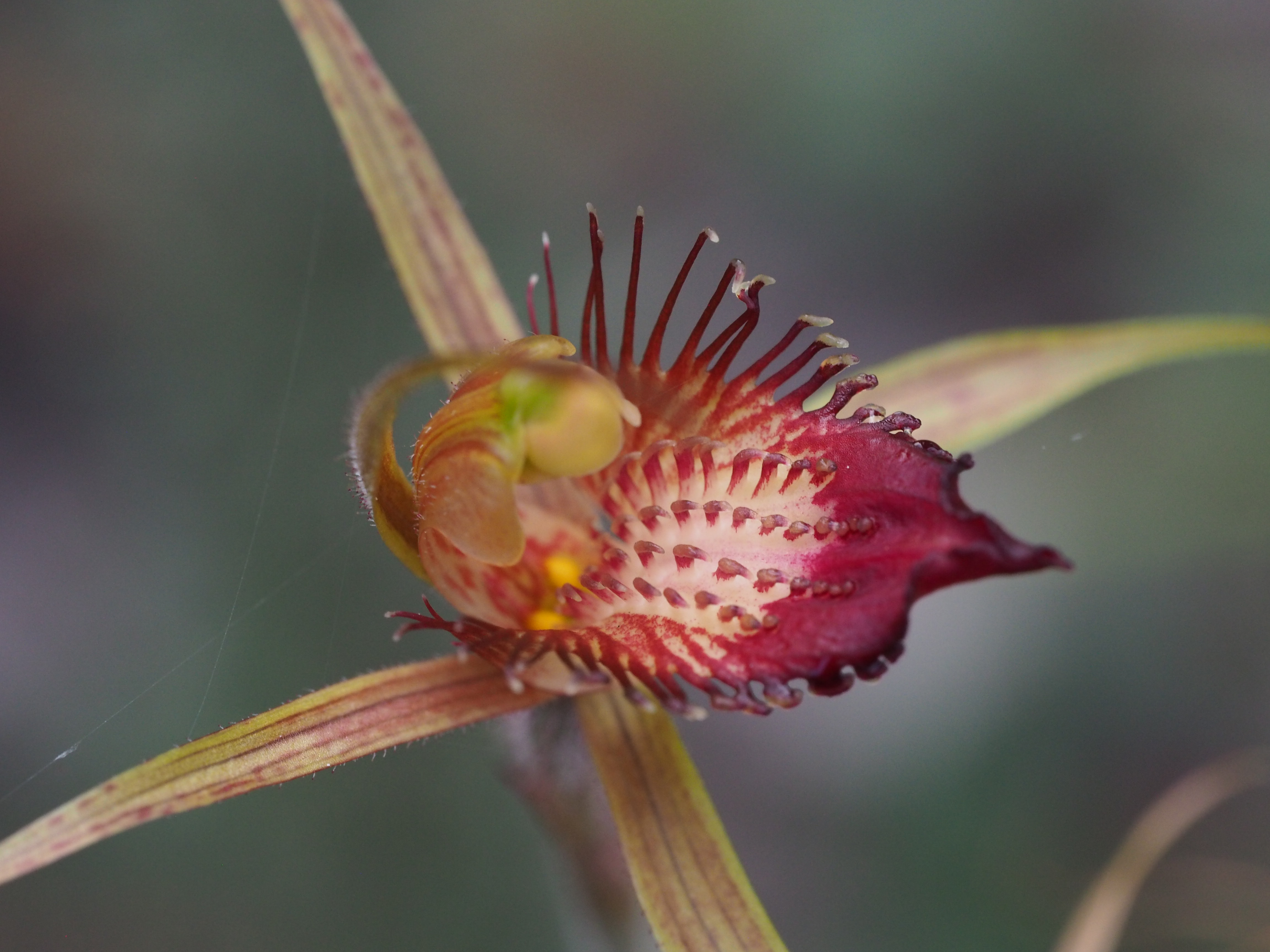 Caladenia georgei growing near Johnston Road, west of Preston Beach, Western Australia